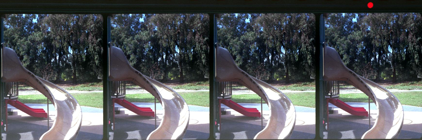 Negative strip from Nimslo, reversed by software, note the dot is red, it is produced by a red L.E.D.